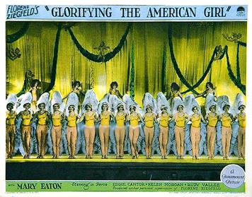 Lobby card for the American musical film Glorifying the American Girl (1929). Renewal searches were done in both film and artwork for the years 1956 and 1957. There were no listings for the film's title or for Paramount in regard to artwork renewals. There's no evidence of current copyright for the film or its related materials.